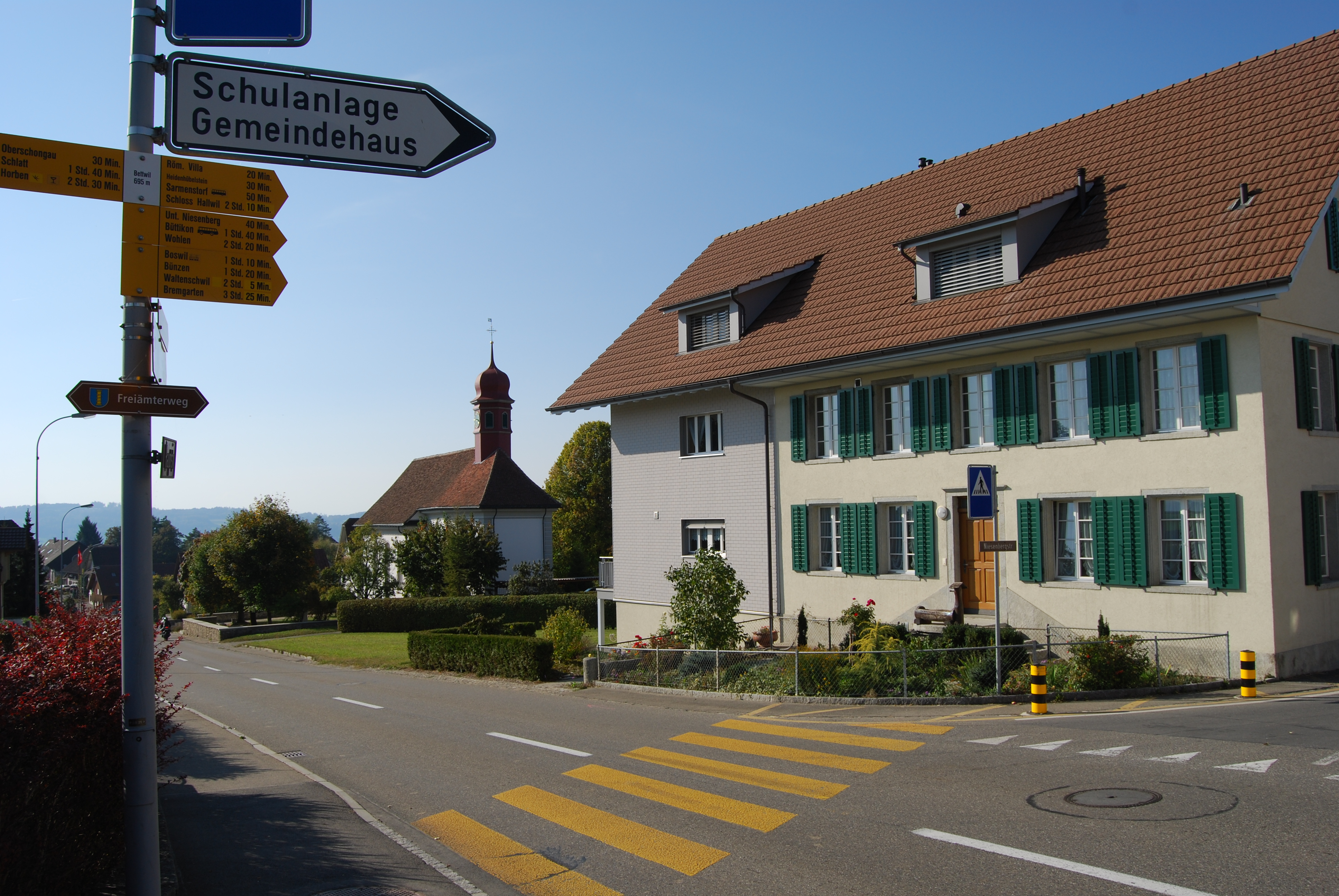 Church of Bettwil, canton of Aargau, SwitzerlandEsperanto: Preĝejo de Bettwil, Kantono Argovio, Svislando